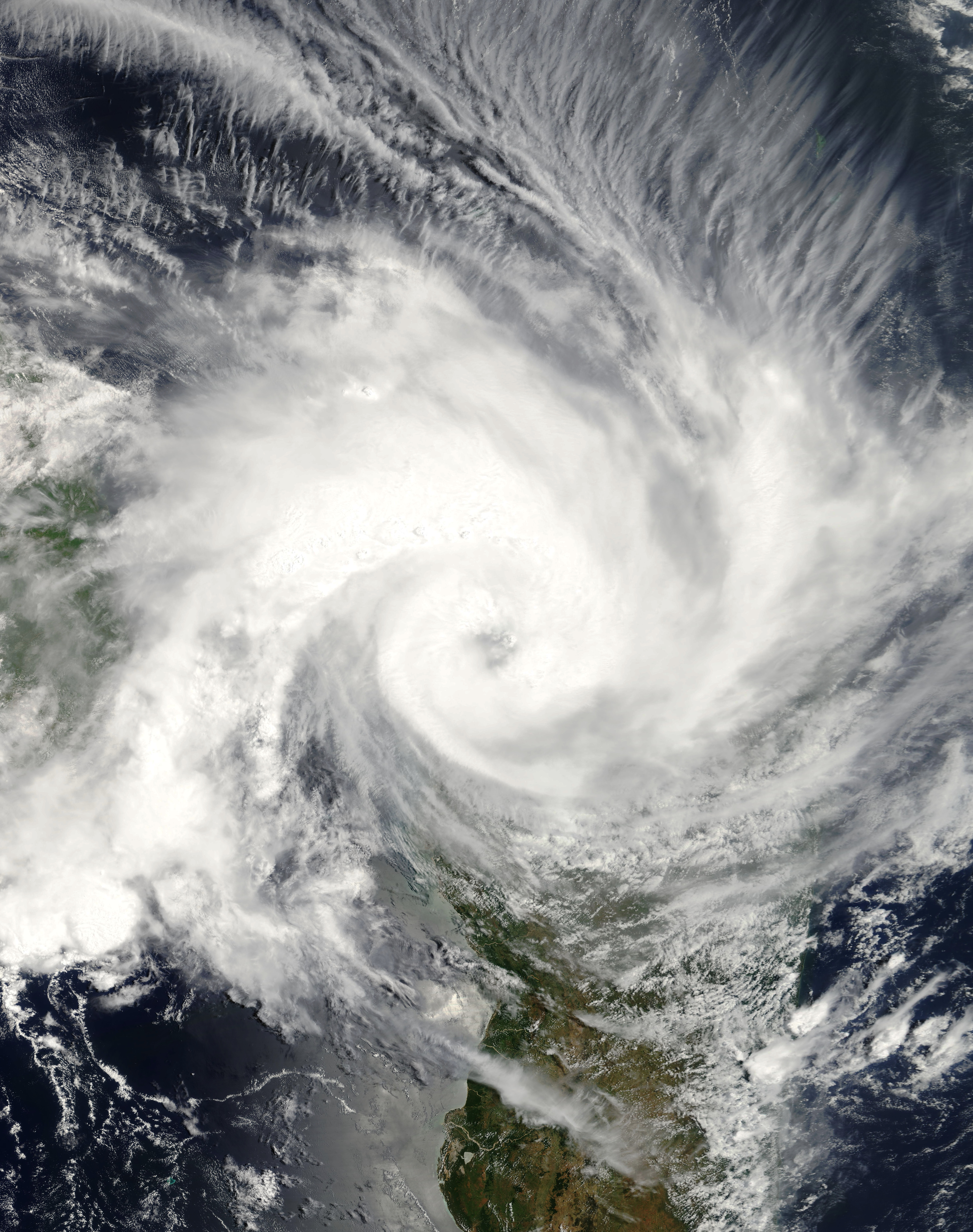 The Moderate Resolution Imaging Spectroradiometer (MODIS)instrument onboard NASA’s Terra satellite captured this true-color image of Tropical Cyclone Elita as it was making landfall off the coast of Mahajanga, Madagascar on January 28, 2004. Elita’s maximum sustained winds were near 60 knots (70 mph) with gusts to 75 knots (85 mph). The storm was expected to dissipate over the next 24-36 hours at it interacted with the Madagascar land body.